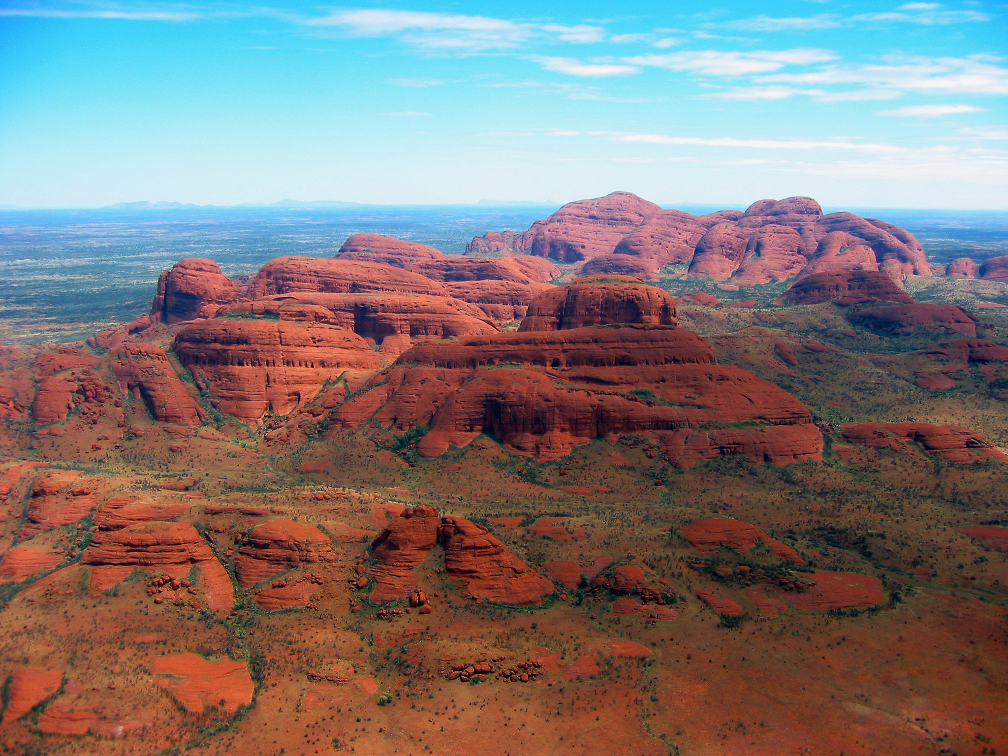 Aerial photograph of the Kata Tjuta (The Olgas) formation